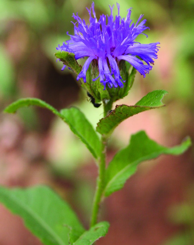 Flower of Nothovernonia purpurea